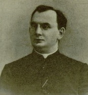 potrait of Lucjan Zoladkowski, priest of Church of Saints Simon and Helena (Minsk, Belarus). Before 1914 AD